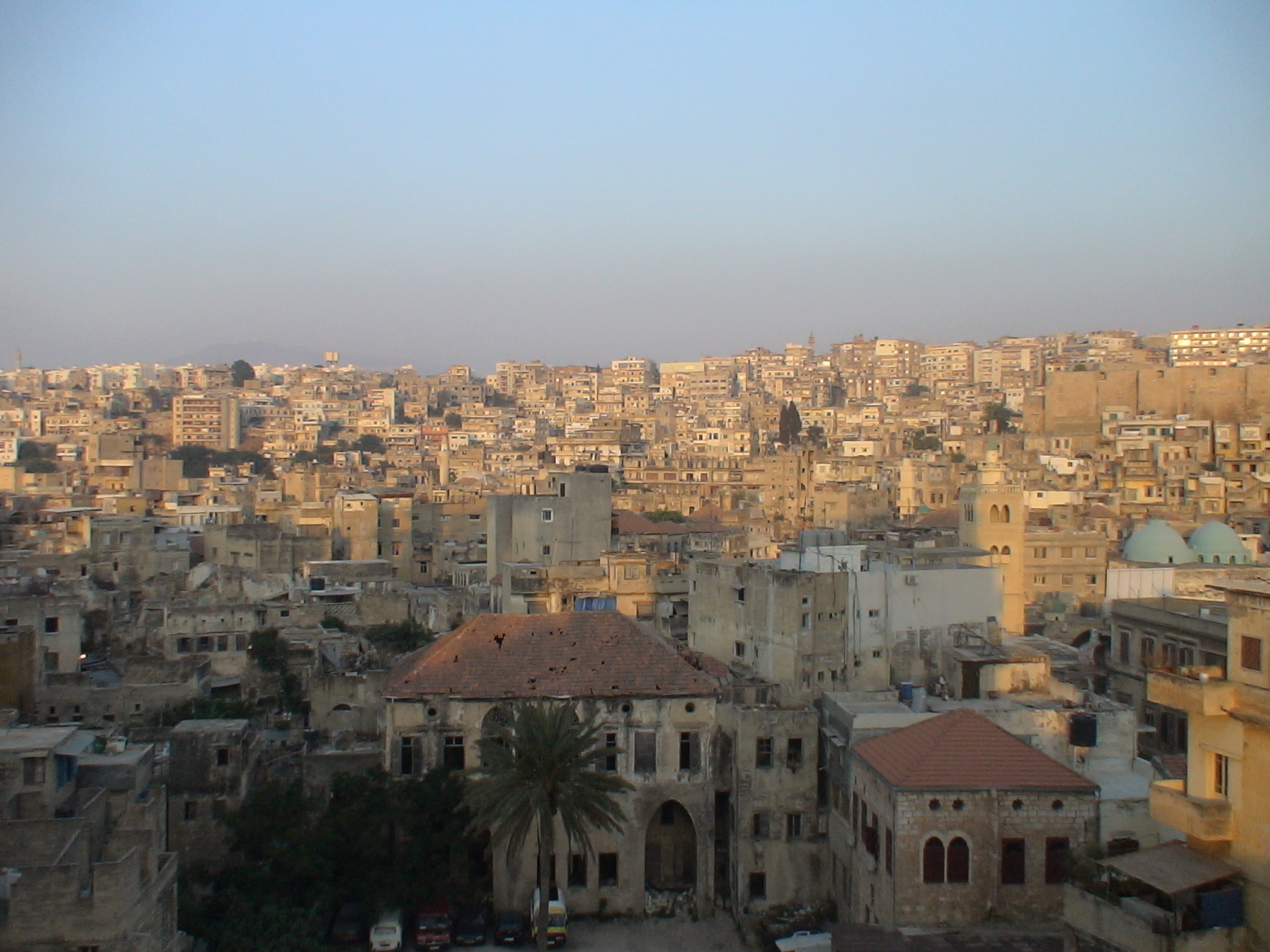 General view of the eastern districts in Tripoli (also showing the Mansouri Great Mosque, the Tripoli Citadel, and many other Mameluke and Ottoman sites).